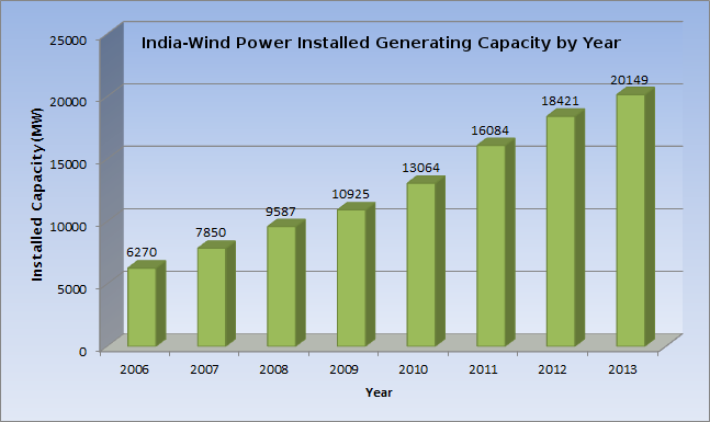 Reference:Global Wind Energy report [1] and MNRE India [2] This graph was created with MS Excel